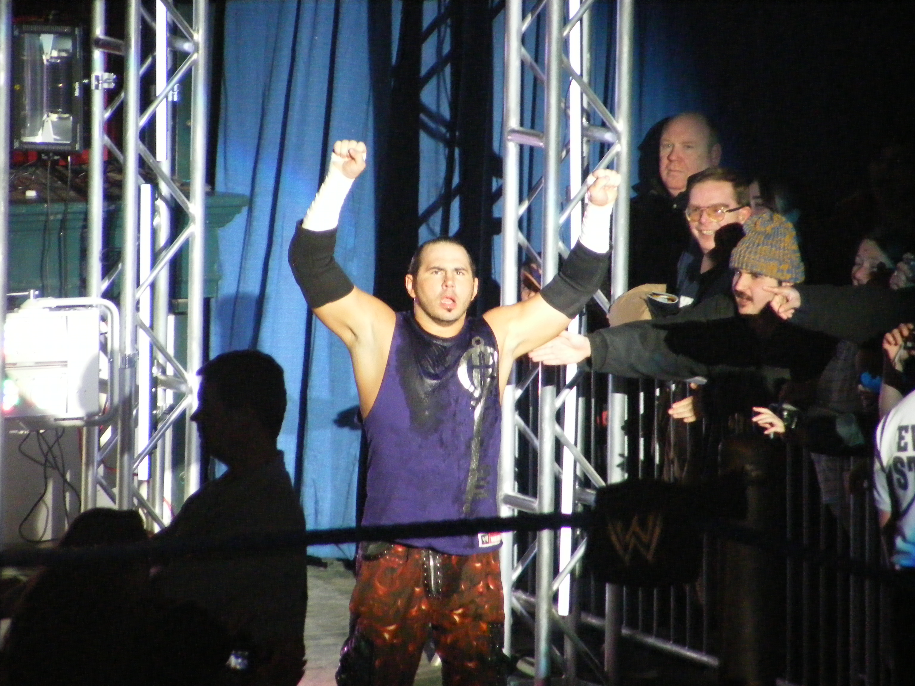 Matt Hardy making his way to the ring